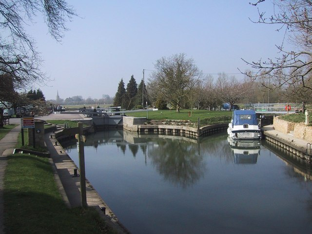 Lock Basin by St John's Bridge